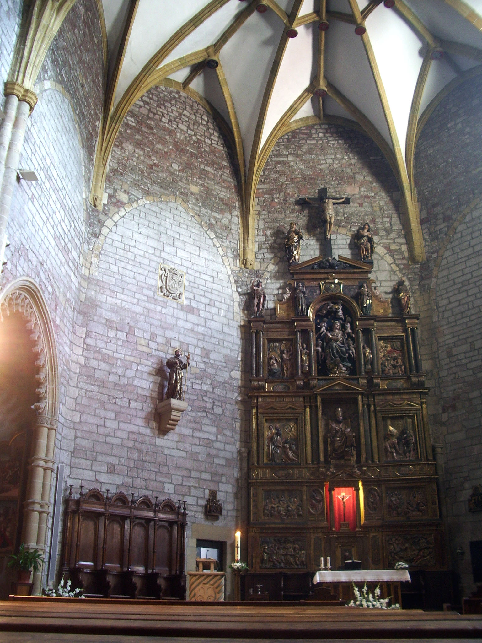 Main altarpiece by Juan Antxieta in San Pedro church, Zumaia (Guipuscoa, Basque Country)